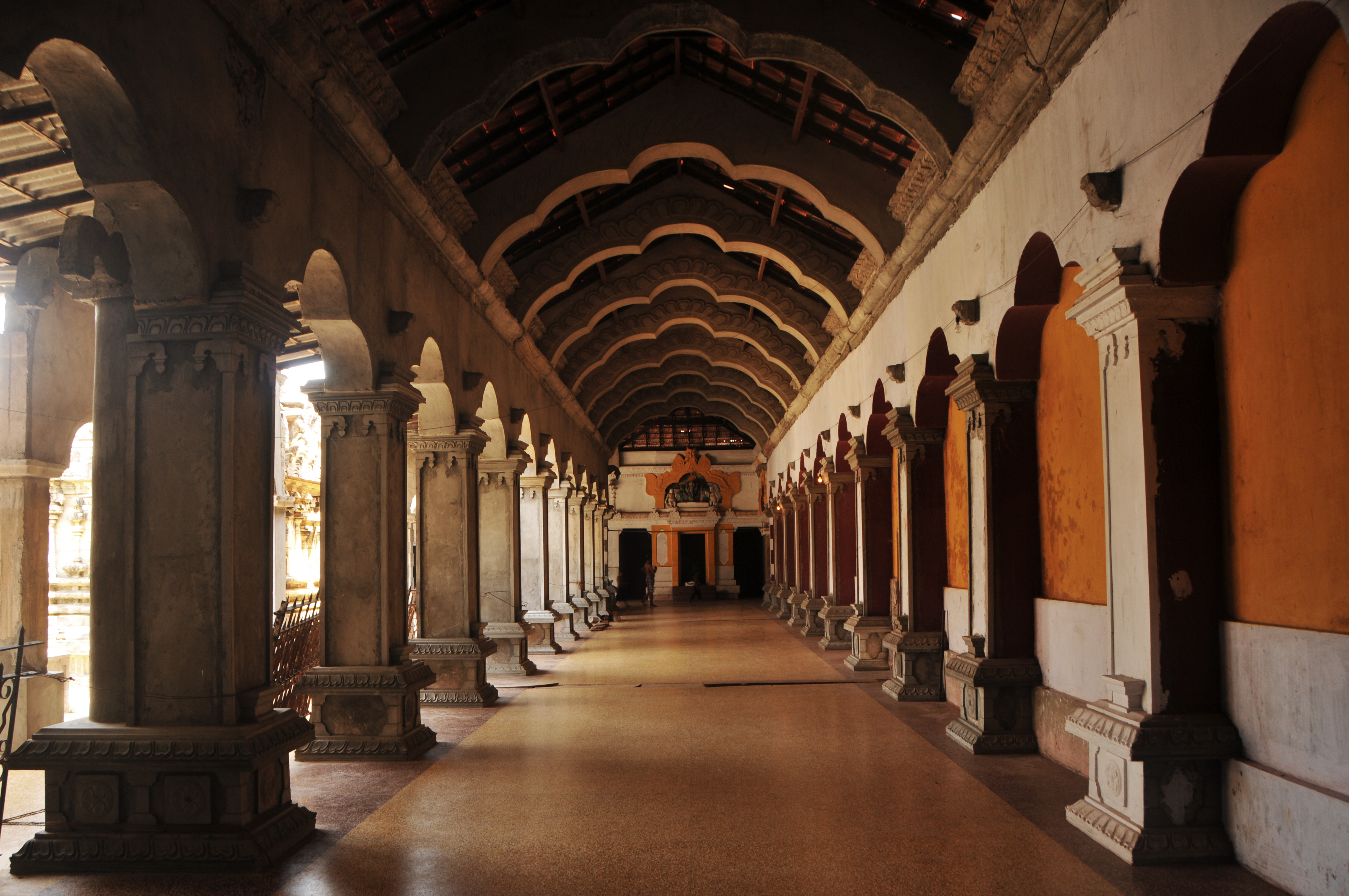 Part of the Naguleshwaram temple in Jaffna